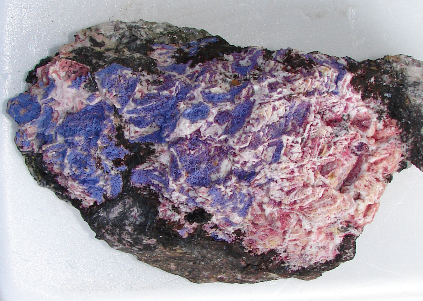 Rare red variscite and blue violet purpurite from Brazil. The sample is 20 cm long.